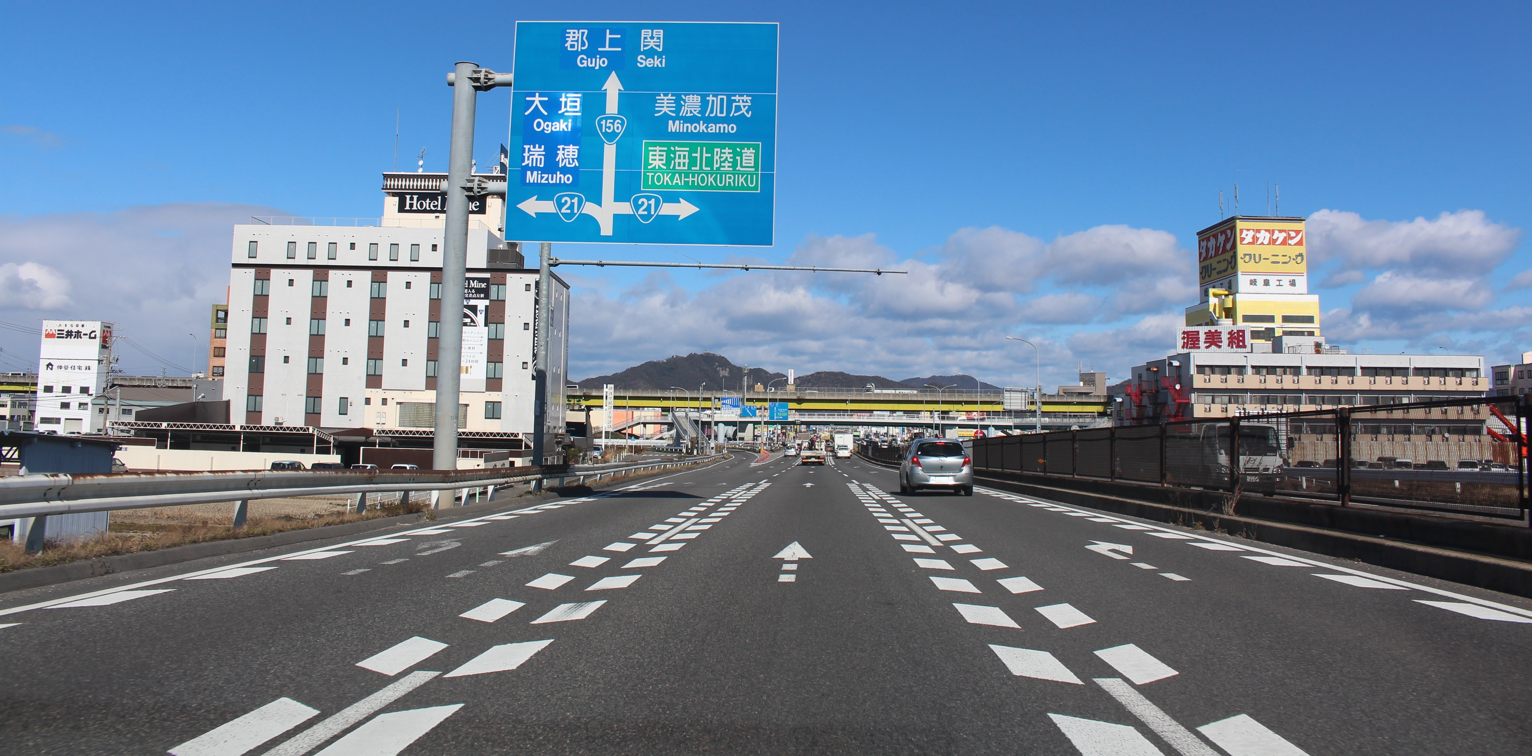 Ginan inter of R22 and R21, in Ginan, Gifu prefecture, Japan.